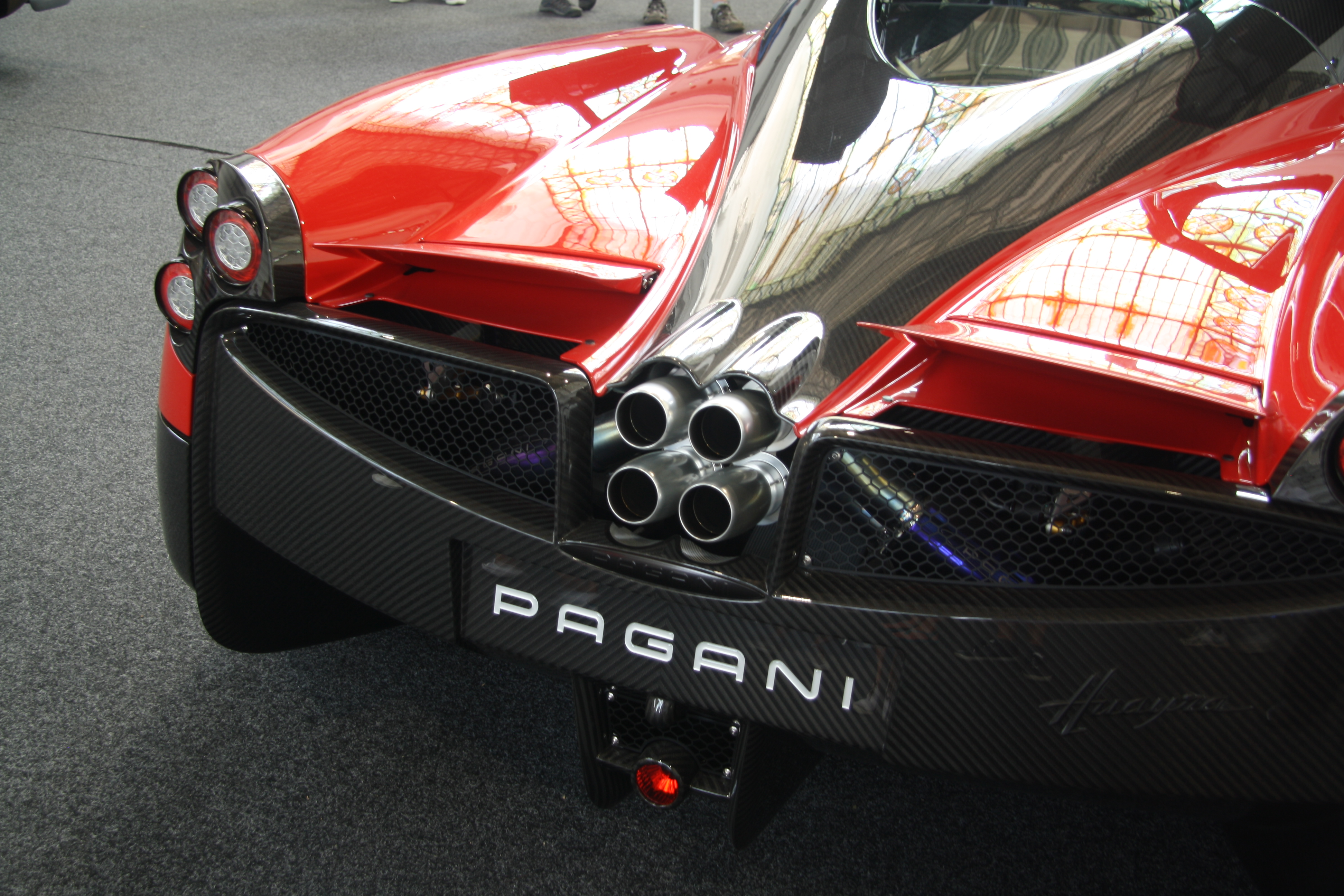 Exhaust of Pagani Huayra at Legendy 2018 in Prague.